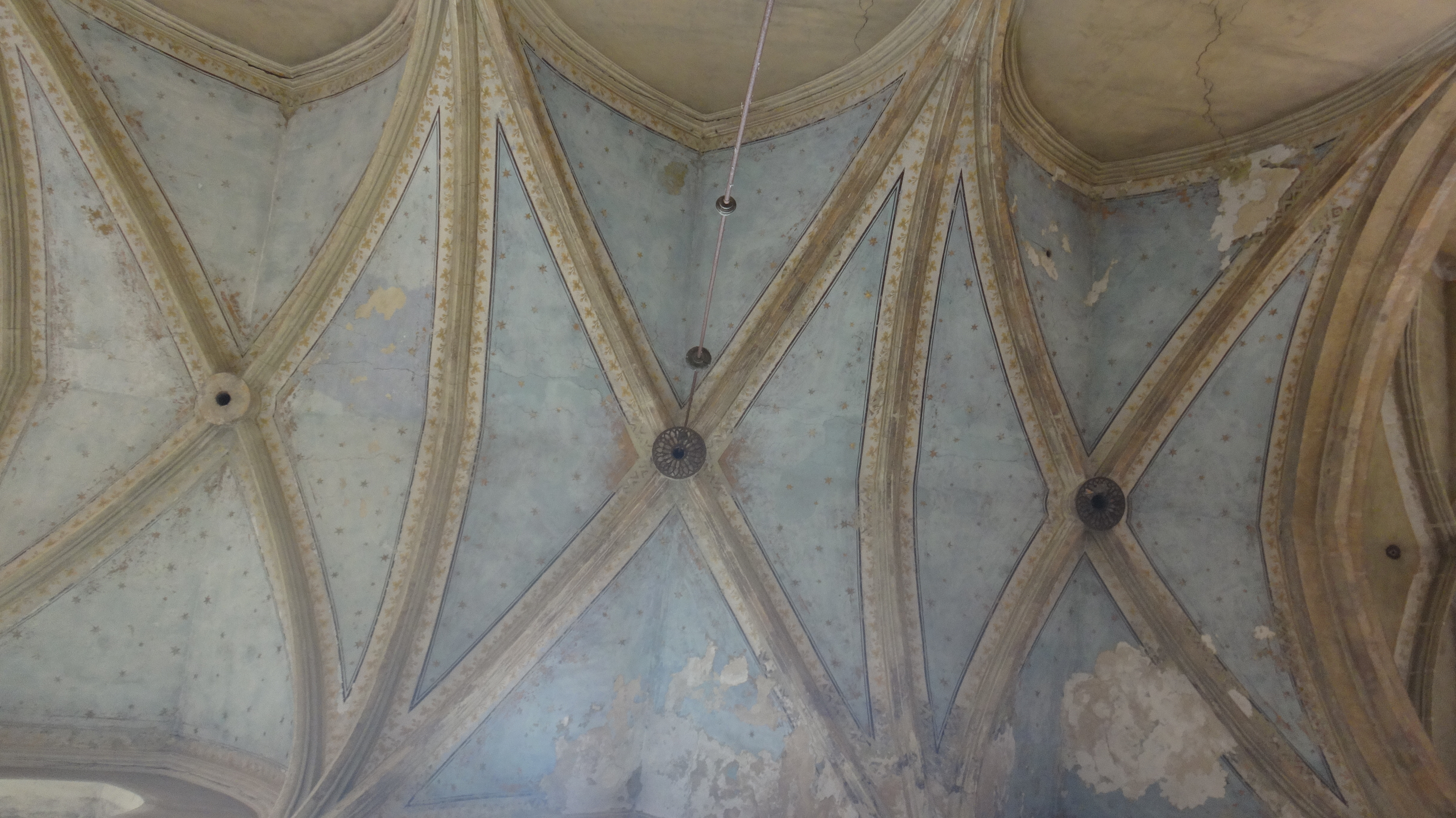 cross vault in the main nave